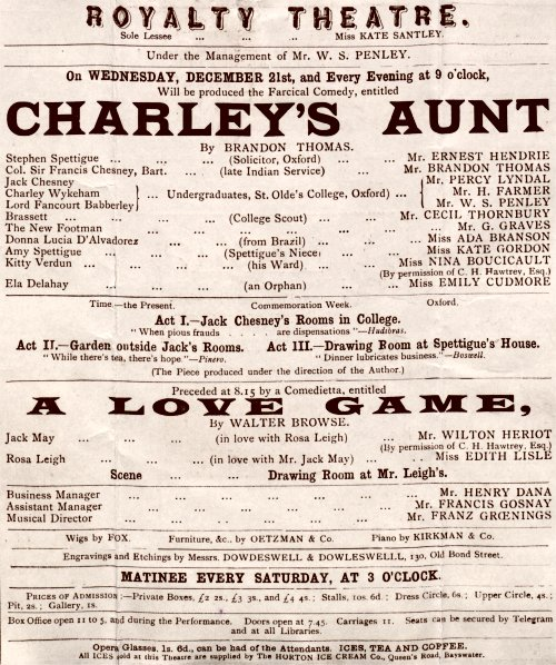 Scan of original Victorian theatre programme from December 1892 for the first production of Charley's Aunt.